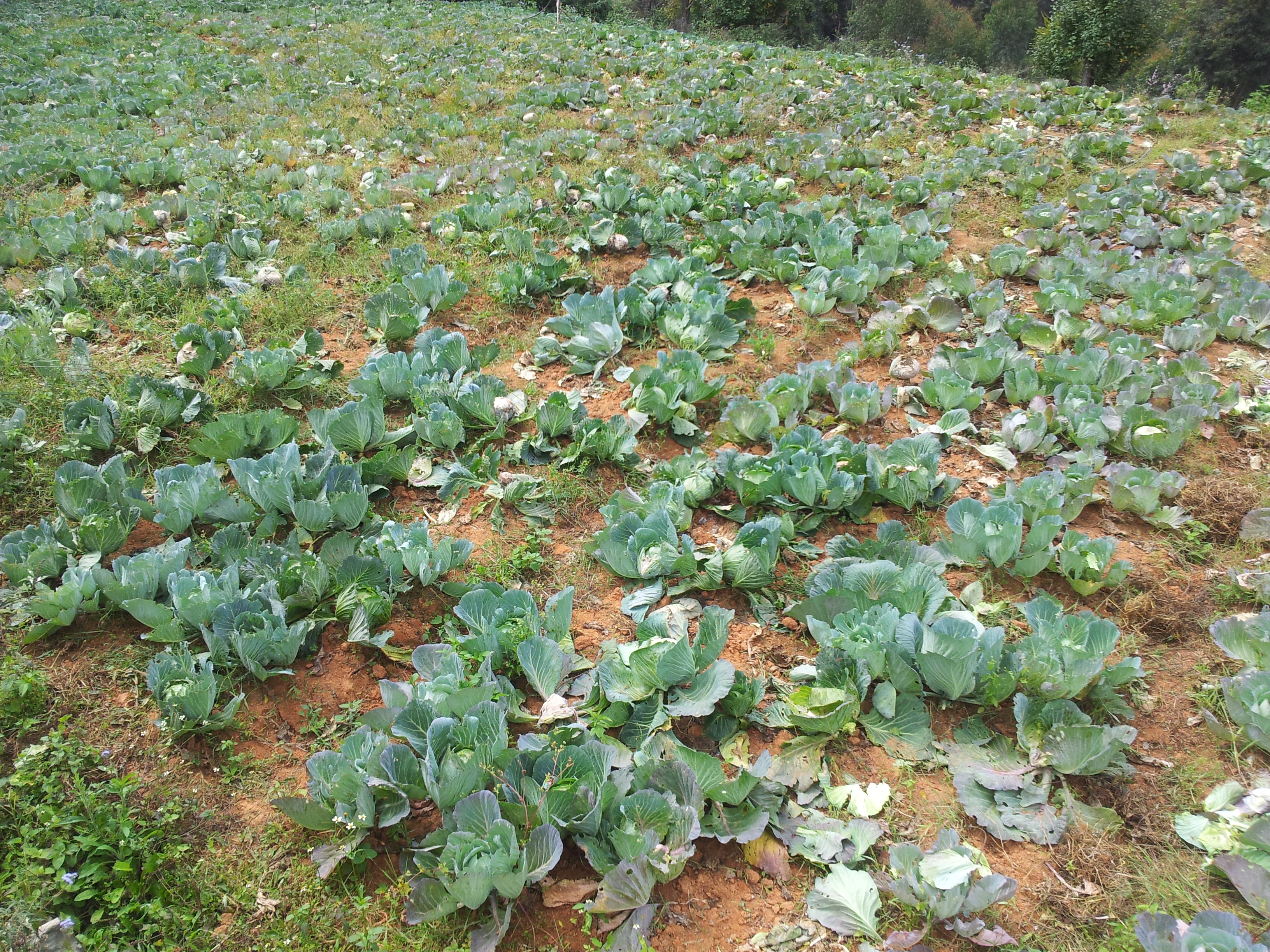 Cabbage fields from Kanthalloor, Kerala